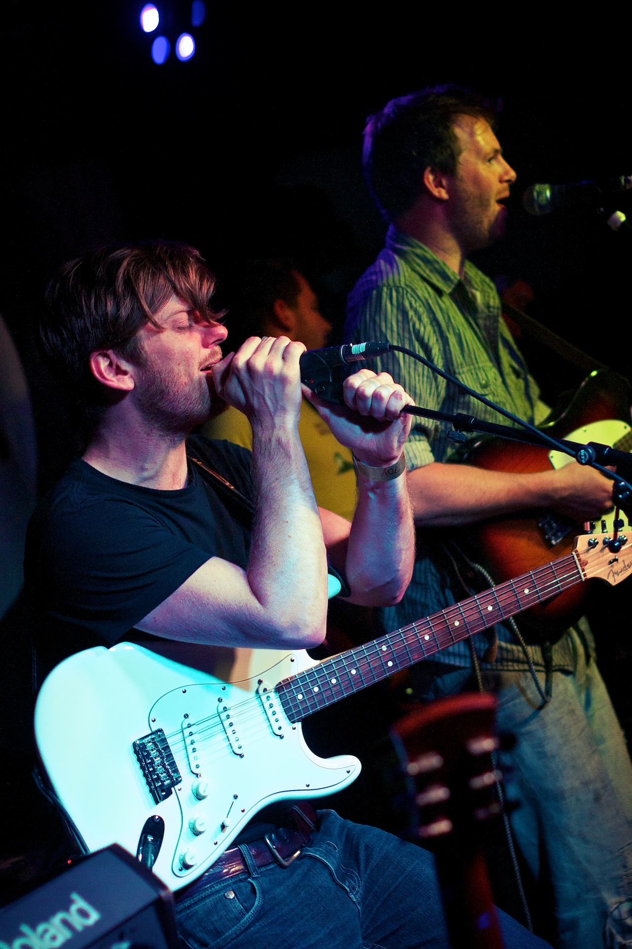 Yes Sir Boss